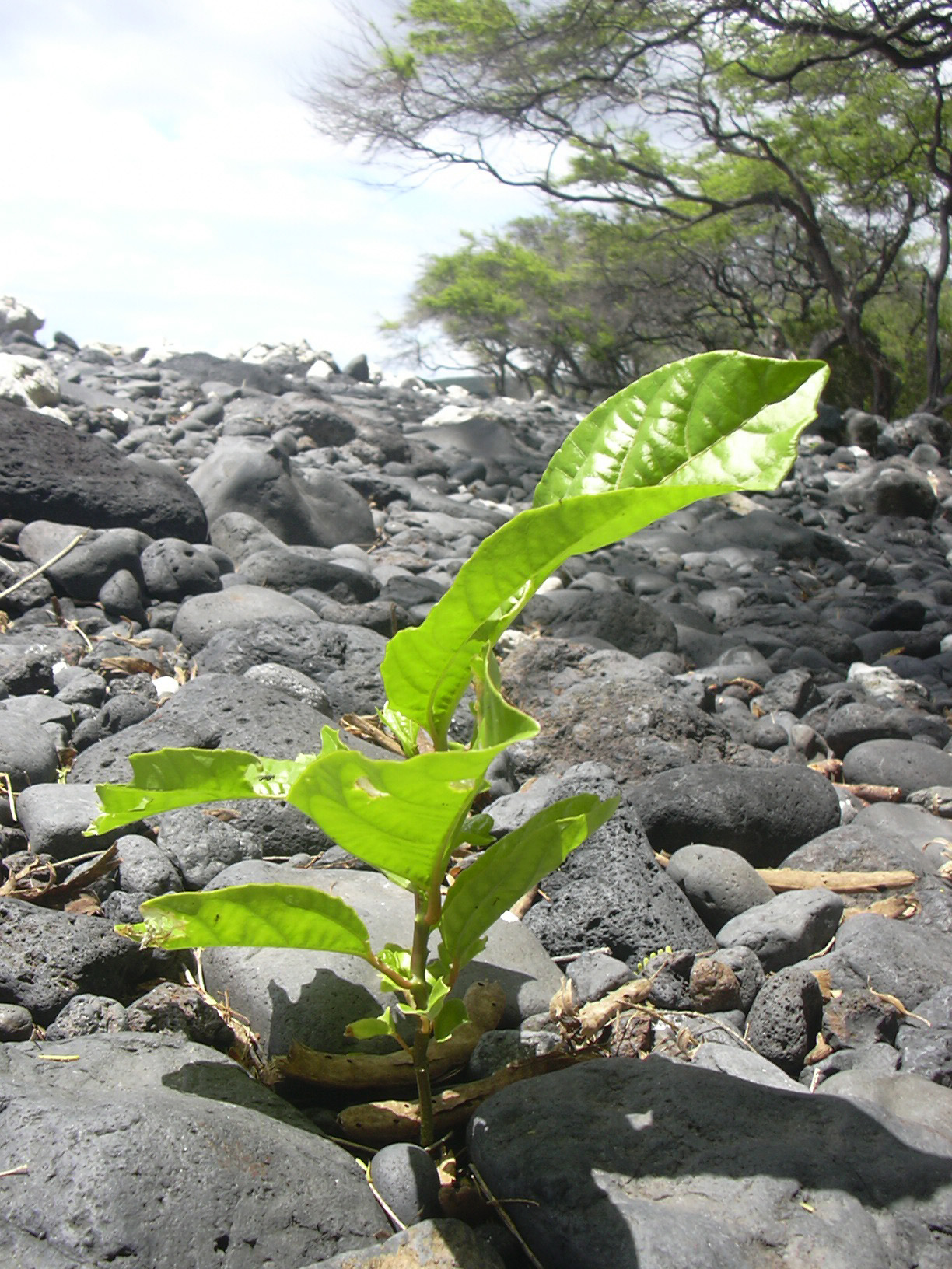 Passiflora edulis (seedling). Location: Maui, LaPerouse